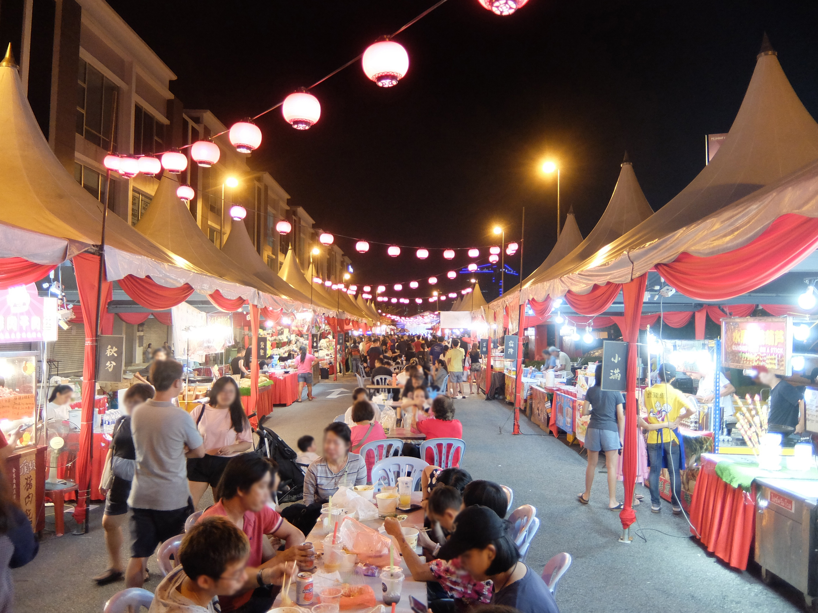 Forbidden City Night Market 2019 @ CI Medini, Medini Iskandar, Iskandar Puteri, Johor Bahru, Johor, Malaysia